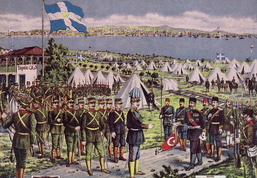 Ottoman Hasan Tashin Pasha surrender Salonique ; "Lithograph by K. Haupt with a scene of the surrender of Thessaloniki by Topsin pasha to Crown Prince Constantine, 1912, Athens, National Historical Museum"[1]